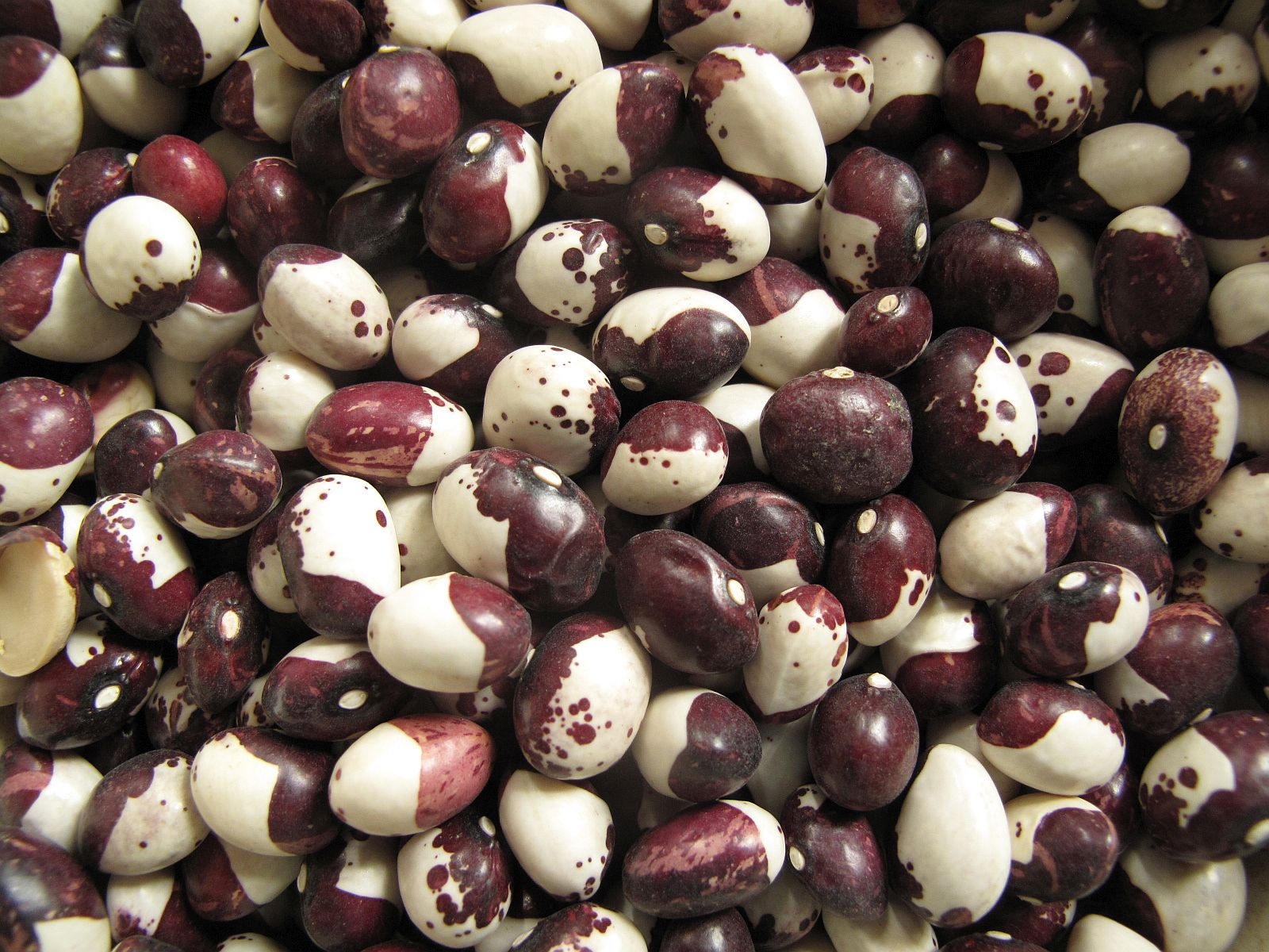 Alubia del obispo beans, also known as Caparrón beans. These are a variety of red kidney beans, a specialty of Anguiana in La Rioja. Purchased in Spain, at 7.90 Euros/kilo ($3.92/lb.). The label on the bin said "Redondo exquisito" or "exquisite round." These beans are used for the stew "caparrones."